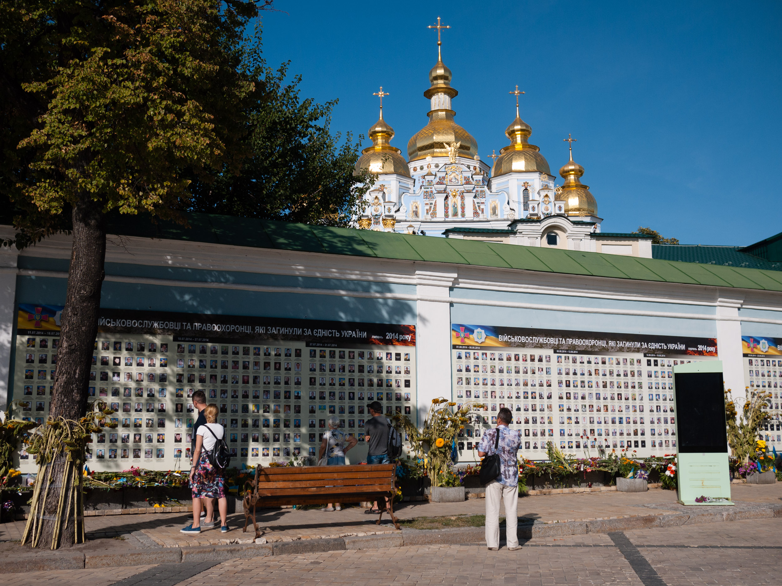 Wall of Remembrance at St. Michael's Monastery, Kyiv